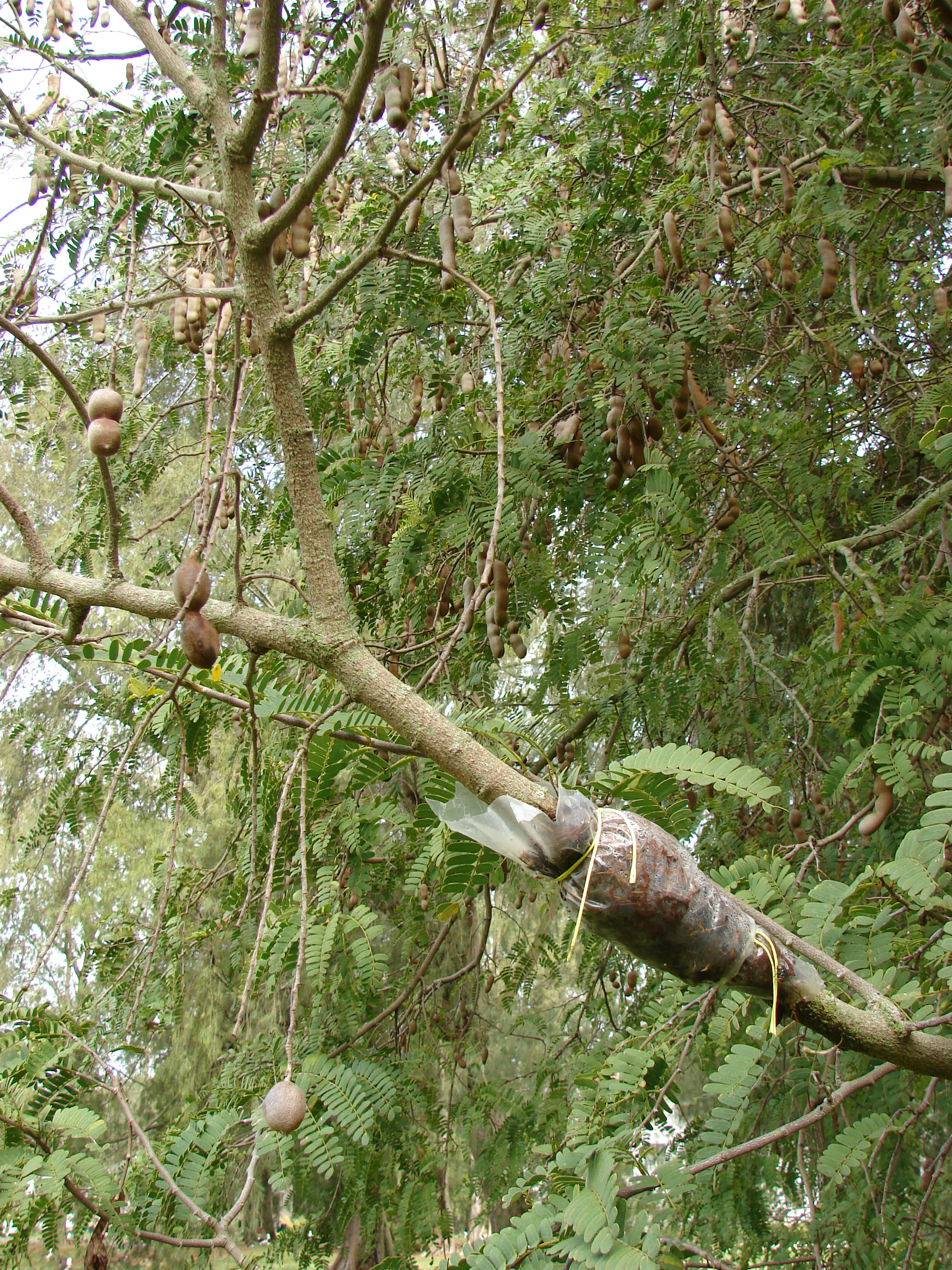 Tamarindus indica (air layer). Location: Midway Atoll, Citrus grove Sand Island